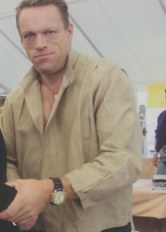 Brian Thompson